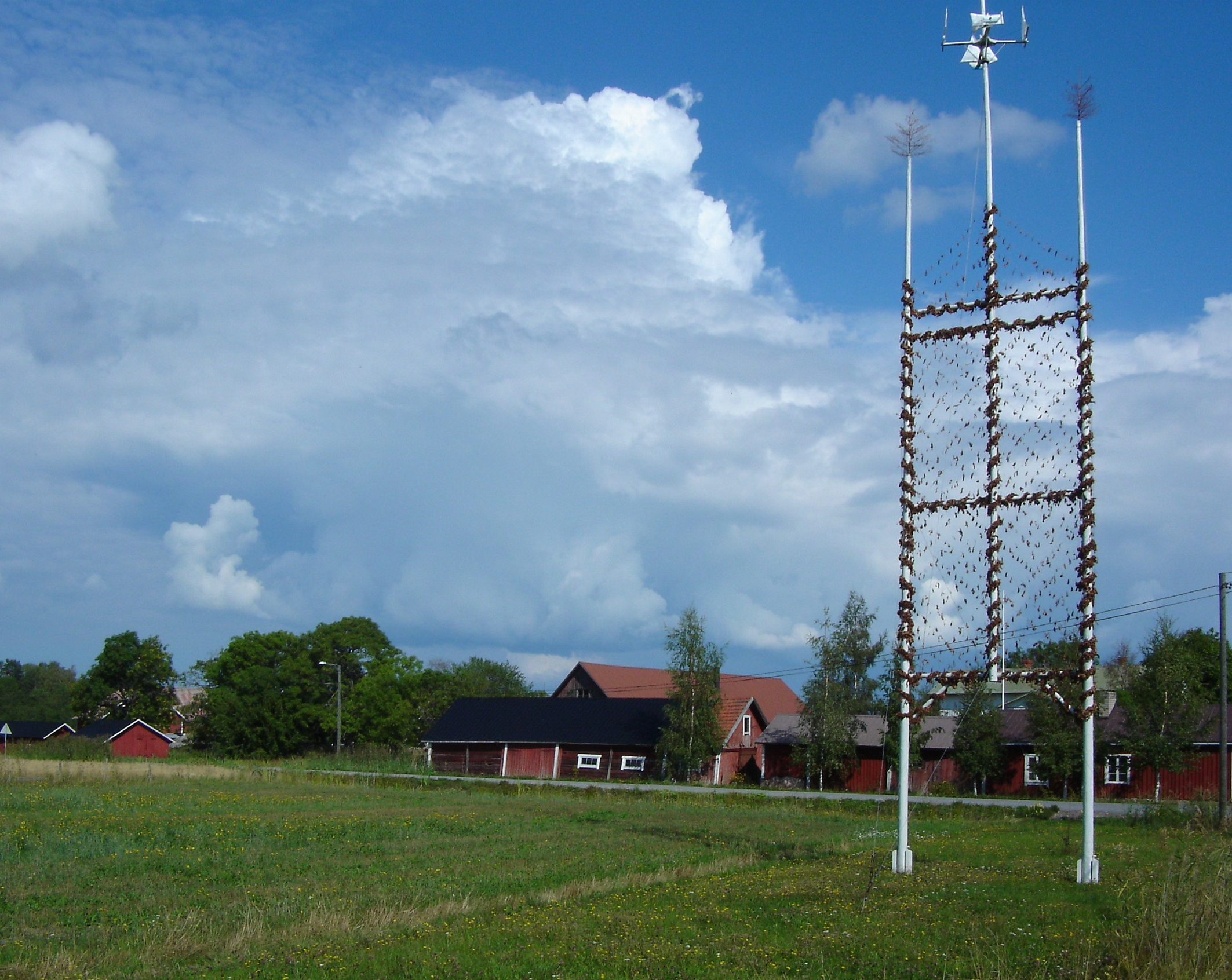 Maypole in the village of Norrby on the island Iniö, Finland